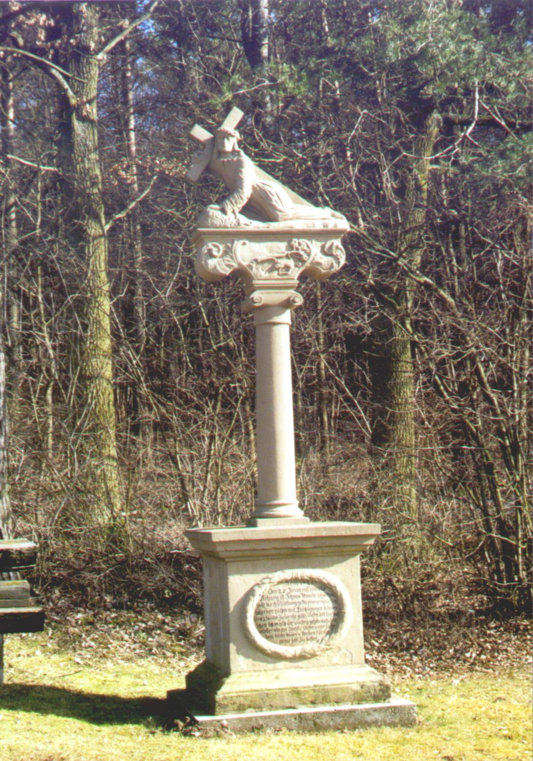 Jesus Carrying the Cross, located at the village exit of Reiterswiesen, a quarter of the German spa town of Bad Kissingen (Lower Franconia, Bavaria). The monument remembers Reiterswiesen's Village Mayor Johannes Mauder, who died on January 27th 1721 of physical hurts after chopping an oak.